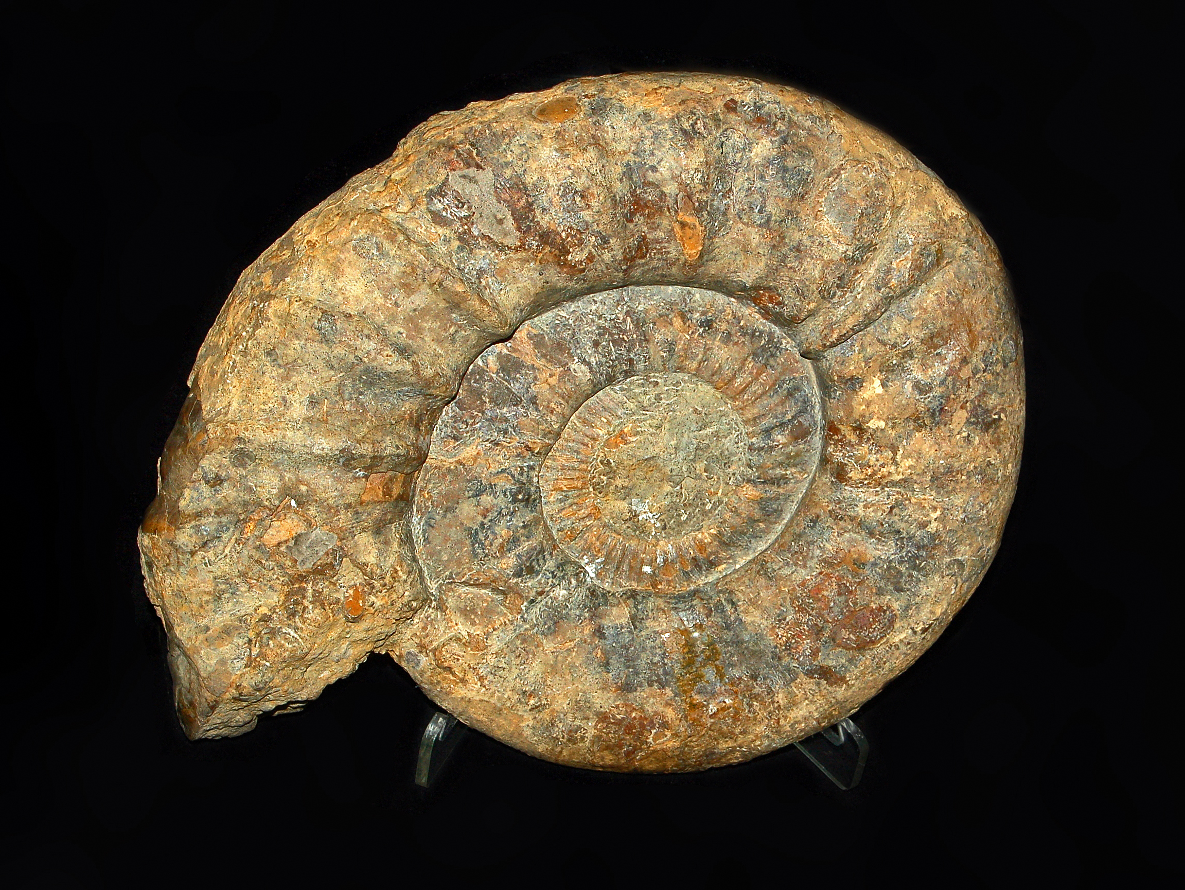 Orthosphinctes sp., from Montejunto (Portugal), at the Museu Nacional de História Natural, Lisboa